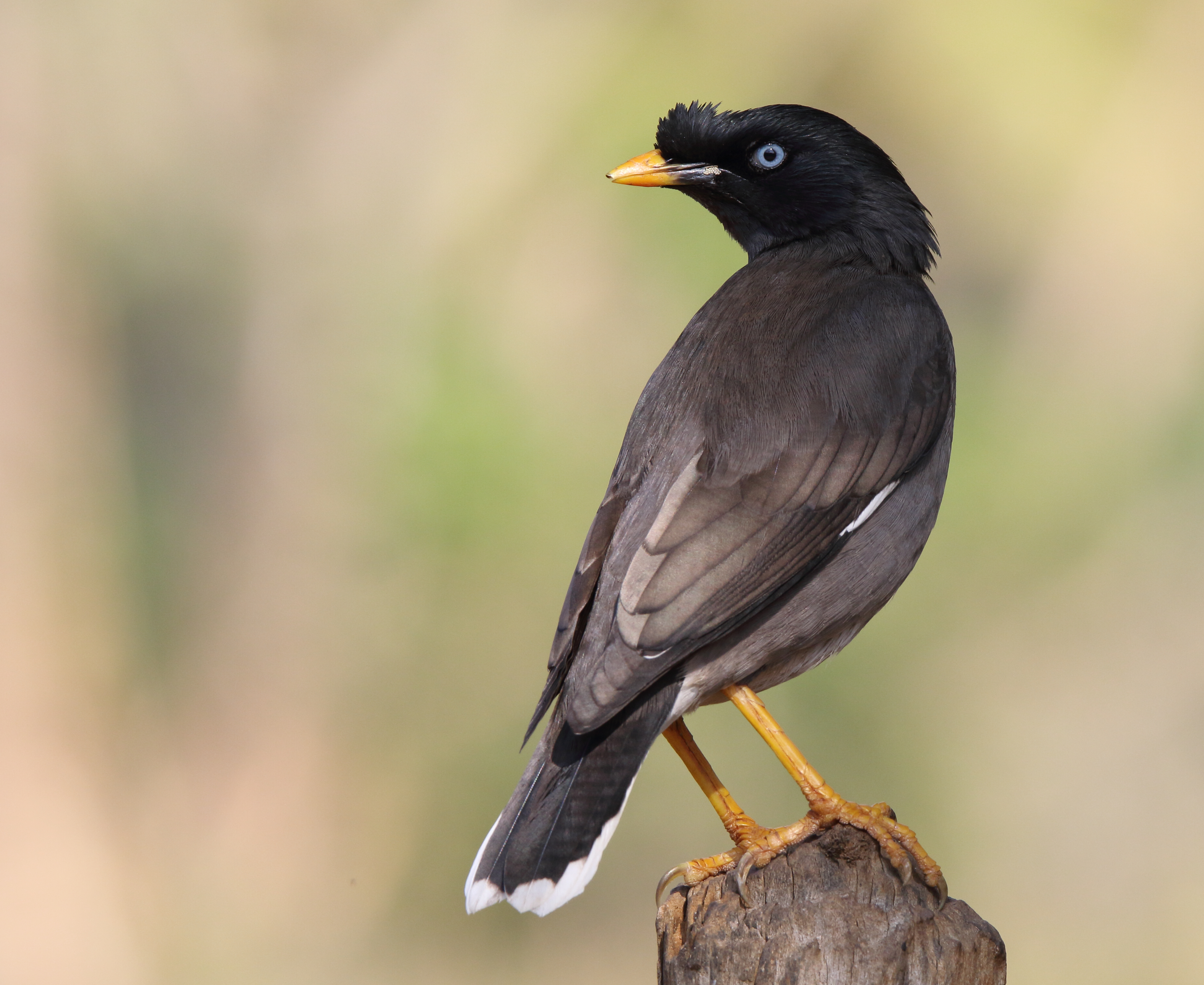 Jungle Myna, Acridotheres fuscus Bengaluru outskirts, Karnataka, India 05 FEB 2017